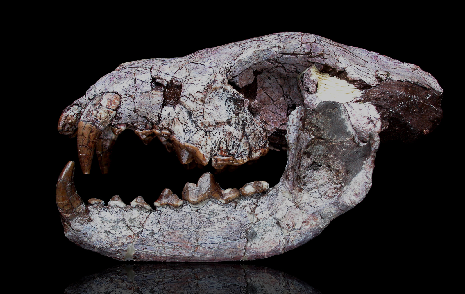 Skull and lower jaw of Phoberogale shareri, holotype